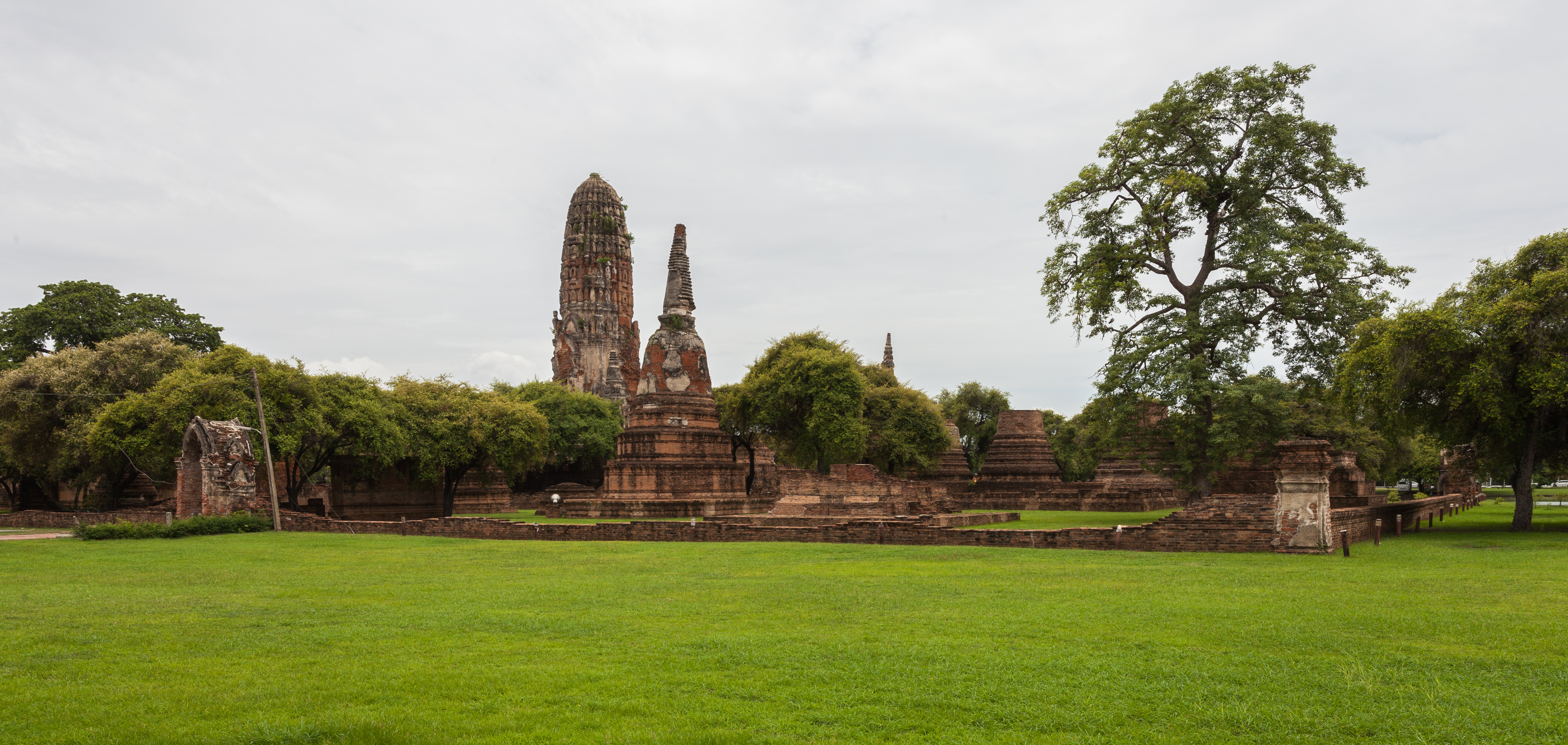 Phra Ram temple, Ayutthaya, Thailand